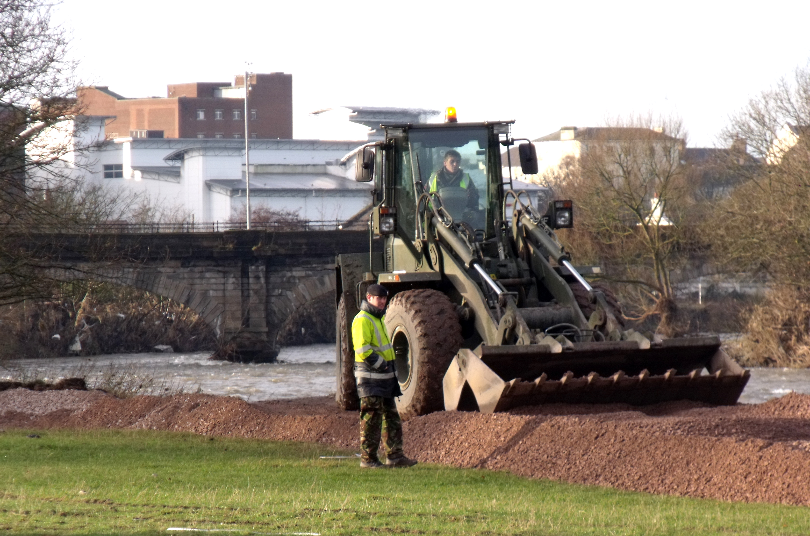 Photographer: Andy V Byers. Royal Engineers creating a short length of road and the foundation for a new footbridge across the River Derwent from Mill Field. Calva Bridge in the background.